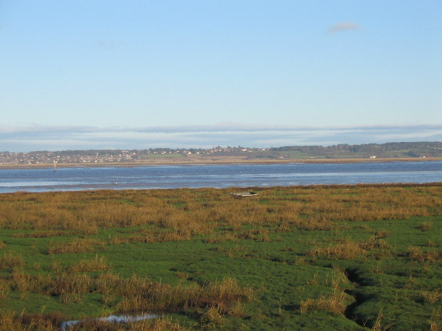 Flint Sands